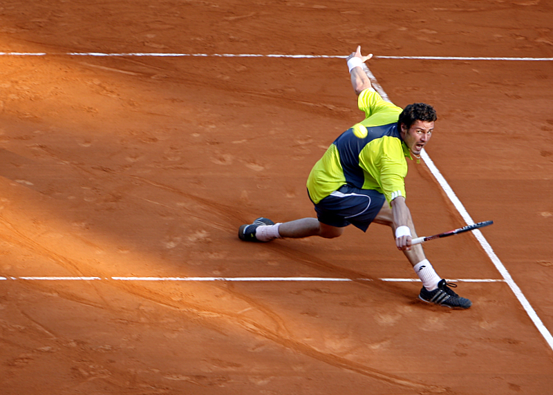 Marat Safin, Master Series Monte-Carlo 2007